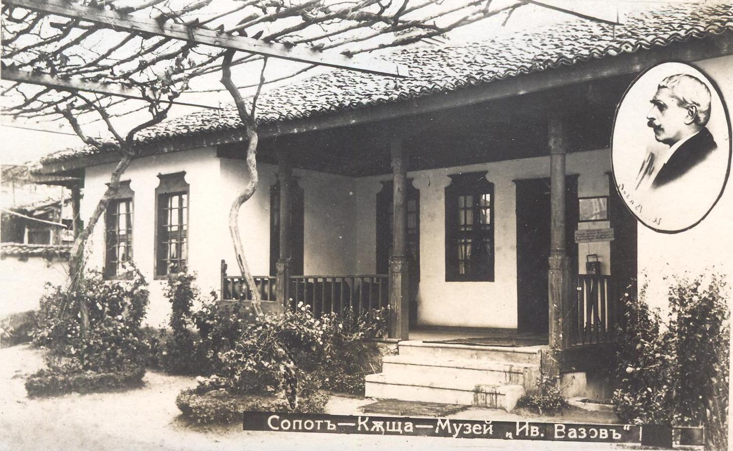 House-museum „Ivan Vazov“, Sopot, Bulgaria.